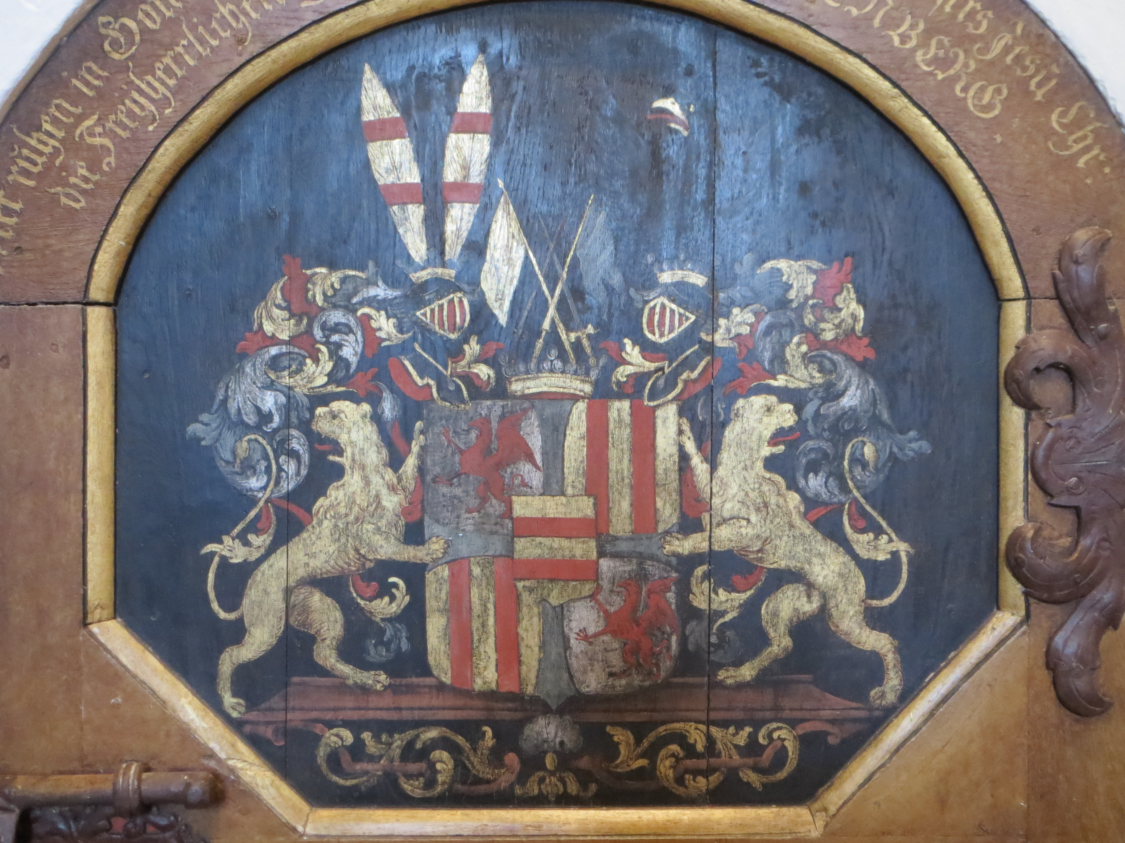 Church in Groß Bünzow